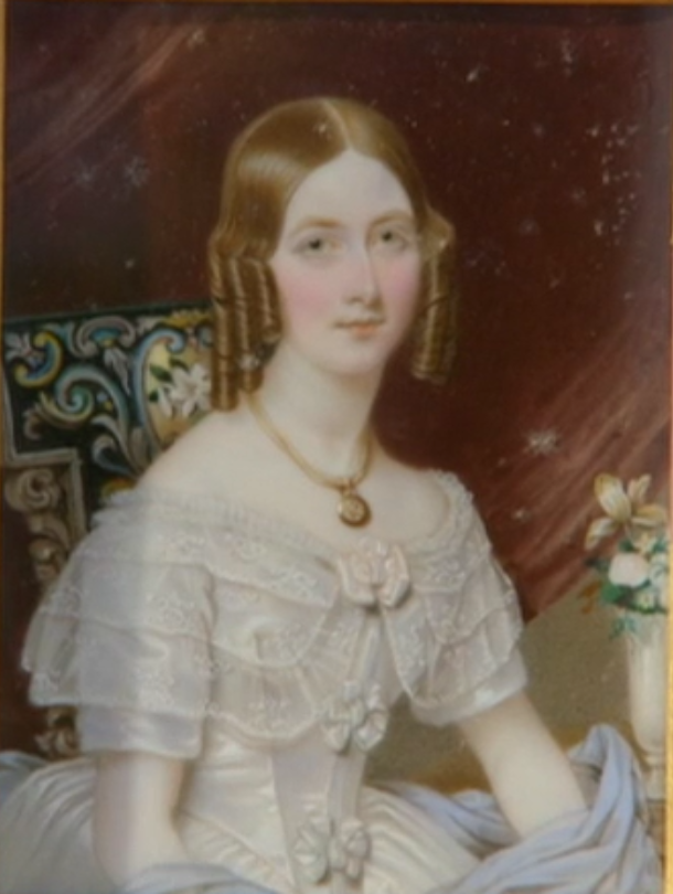 Portrait of Adelaide Lucy Fenton (1824 or 1825 – 1897), as featured on the BBC Television programme Antiques Roadshow, when it was said that Fenton is depicted in the dress and jewellery she wore for her coming-out ball; and seated on a chair which she herself had embroidered.